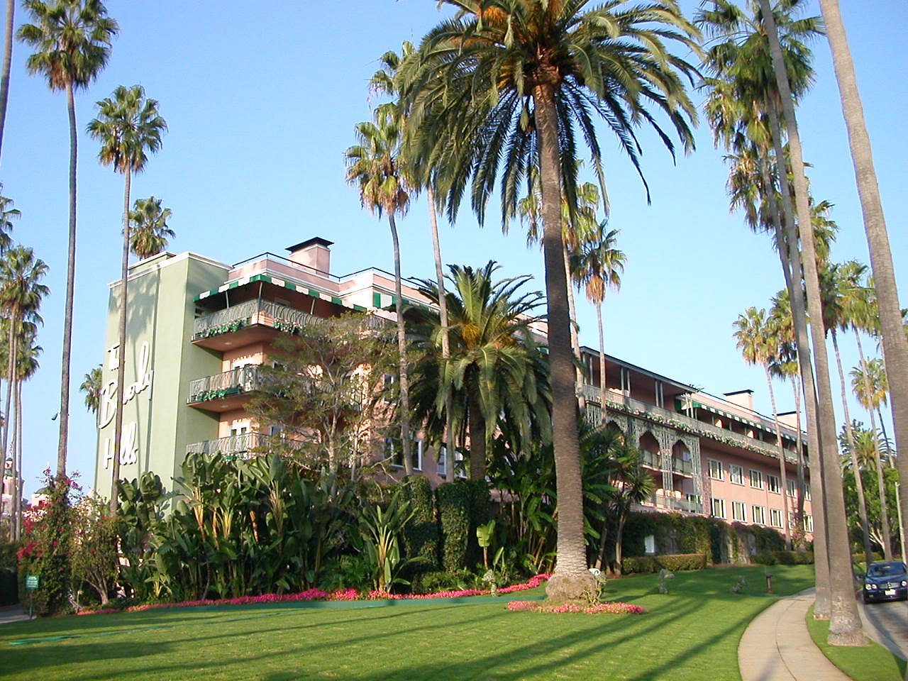 The 'new wing' (c. 1950s) designed by Paul R. Williams. Added on the eastern side of the original Beverly Hills Hotel.